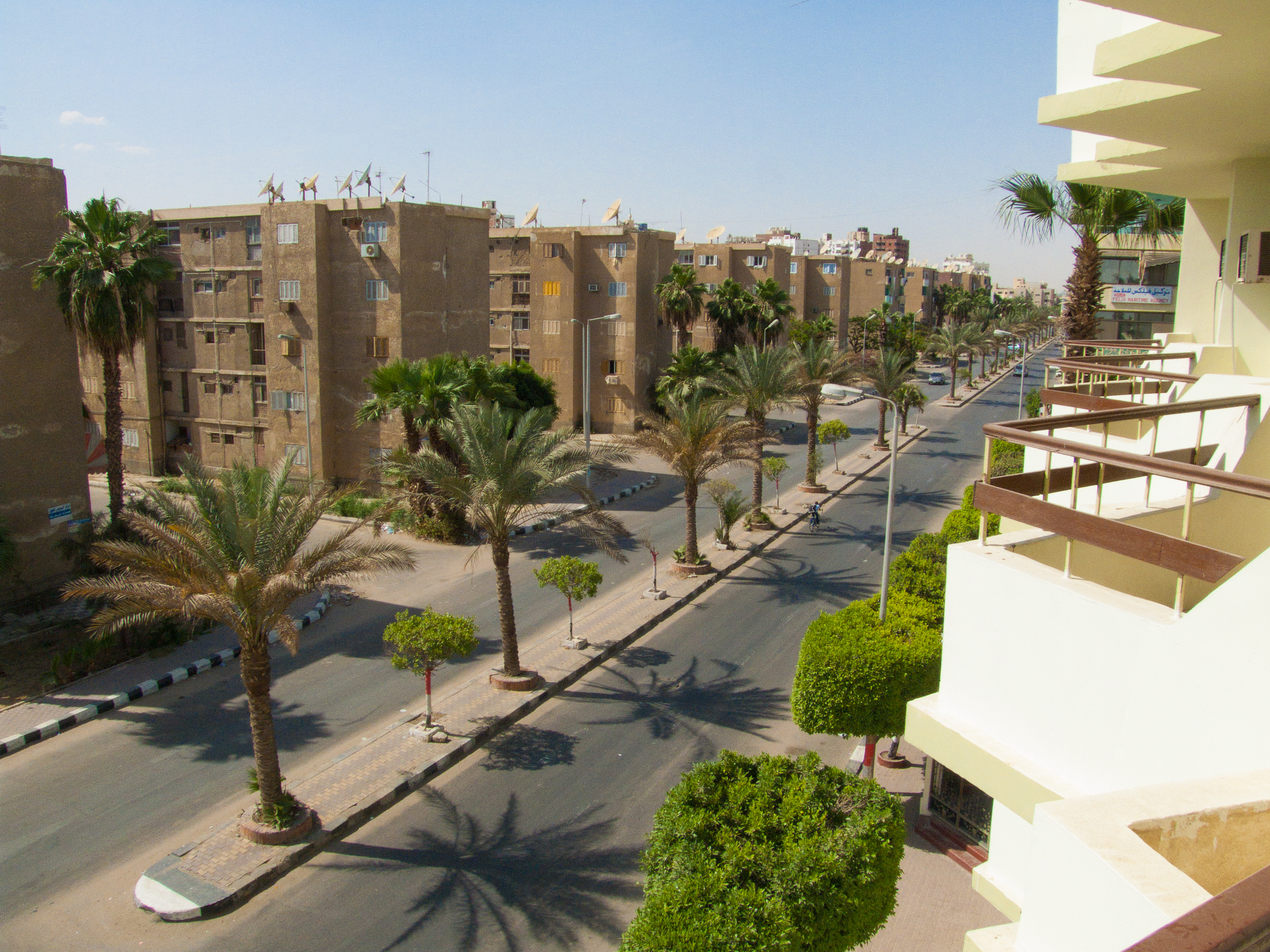 Palm trees line the road